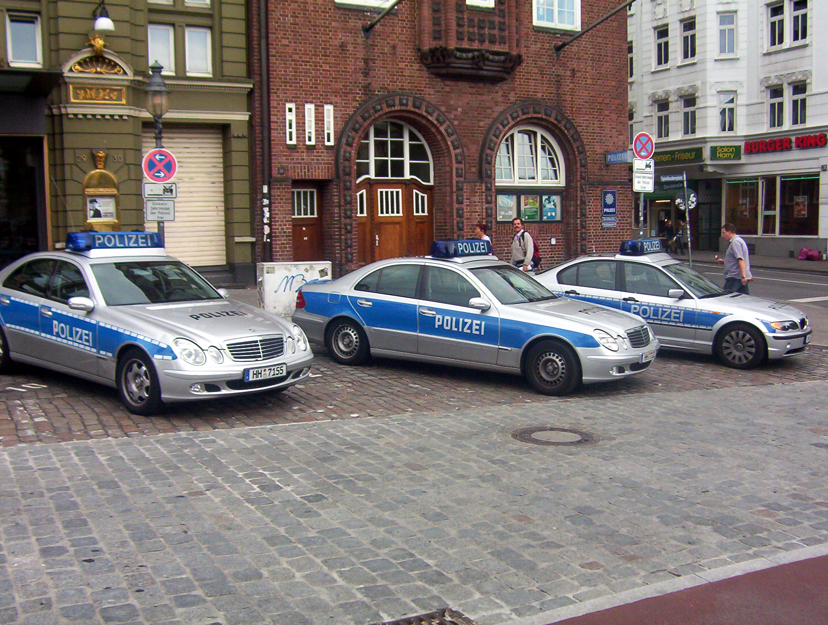 German Police Patrol car in new blue-silver livery in front of the famous Davidwache in Hamburg.